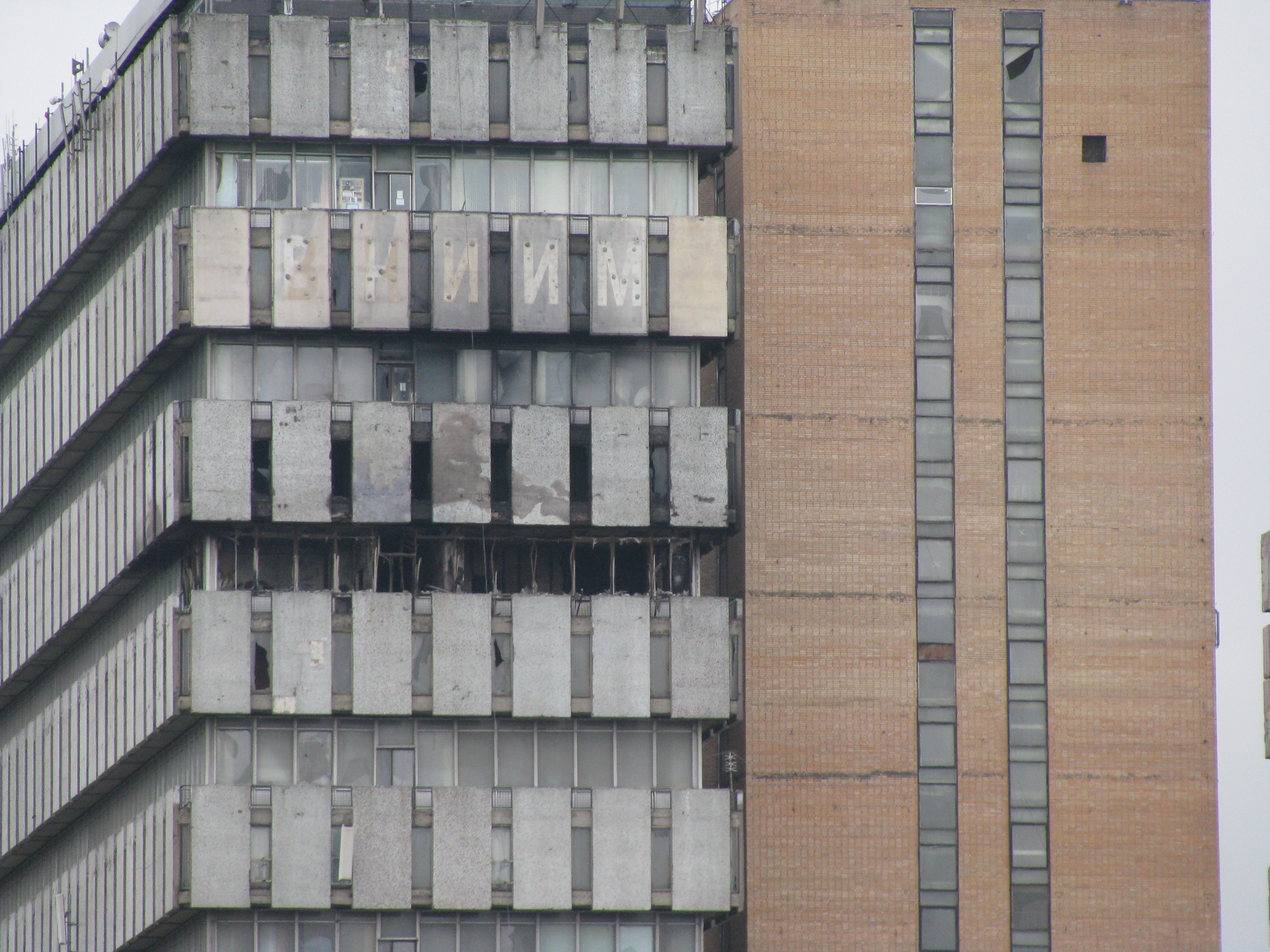 Building of VNIIMS damged by gasfire in Moscow